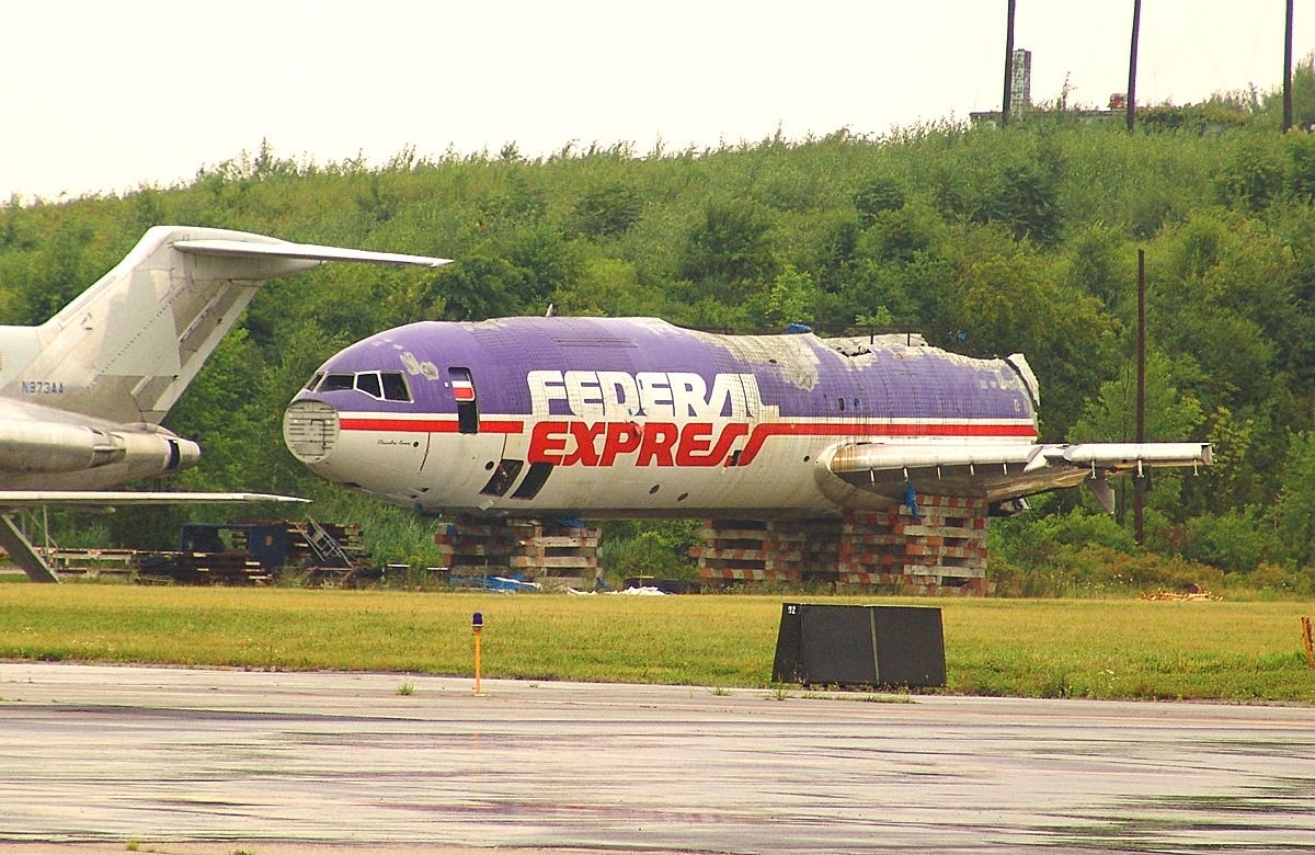 Burnt following an emergency landing on September 5, 1996. We were told it is still under investigation.